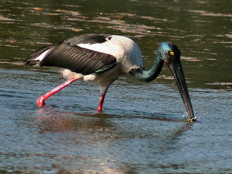 Black-necked Stork, (Ephippiorhynchus asiaticus) at Bharatpur, Rajasthan, India.